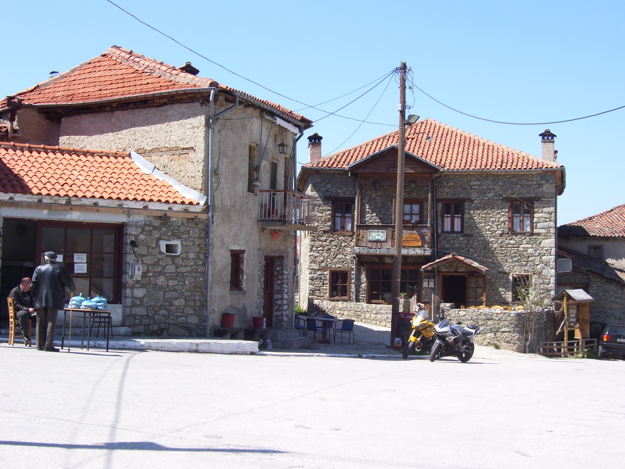 Central square the village of Agios Germanos, Prespes municipality, Florina prefecture, Greece.